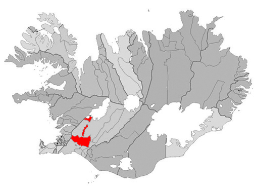 Based on Municipalities of Iceland.png.